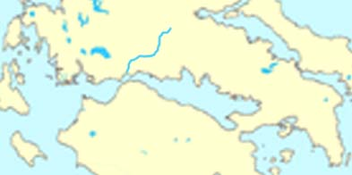 Map of Mornos river in Greece